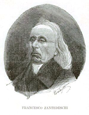 Francesco Zantedeschi 1797 to 1873 to illustrate that article. This portrait of Francesco Zantedeschi was published by Stefano de Stefani, president of the Academy of Agriculture, Arts and Commerce of Verona, on March 21, 1875 to accompany his eulogy to Zantedeschi on the occasion of the transport of his ashes to the cemetery at Verona. Black and white version